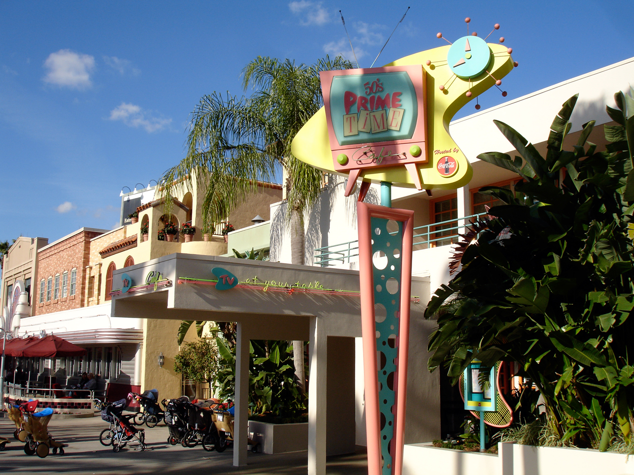 The entrance to the '50s Prime Time Cafe